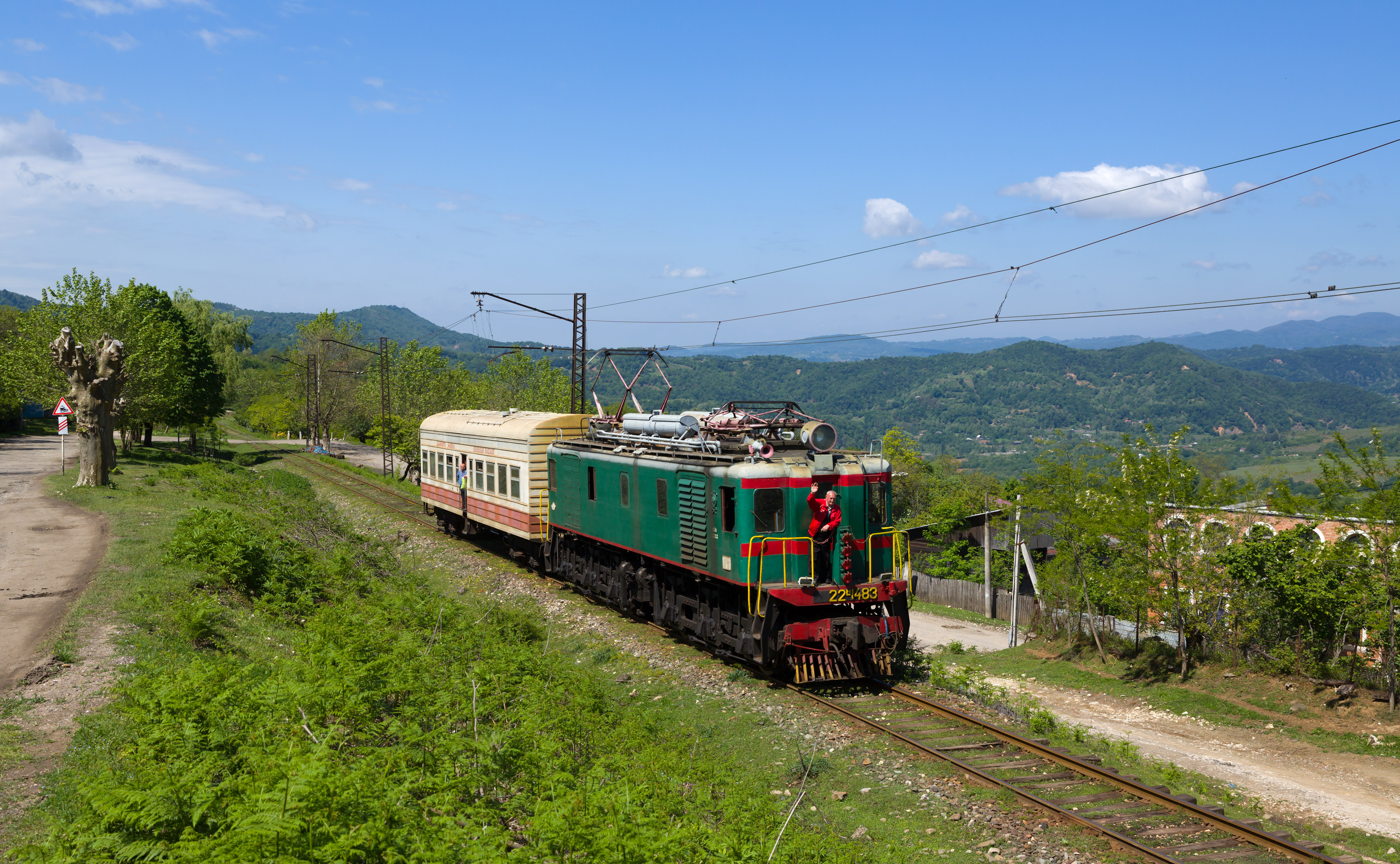 Soviet electric locomotive VL22M 1483, the last remaining operational VL22M, with the passenger train Kutaisi - Tkibuli just before arriving at Satsire, Georgia.